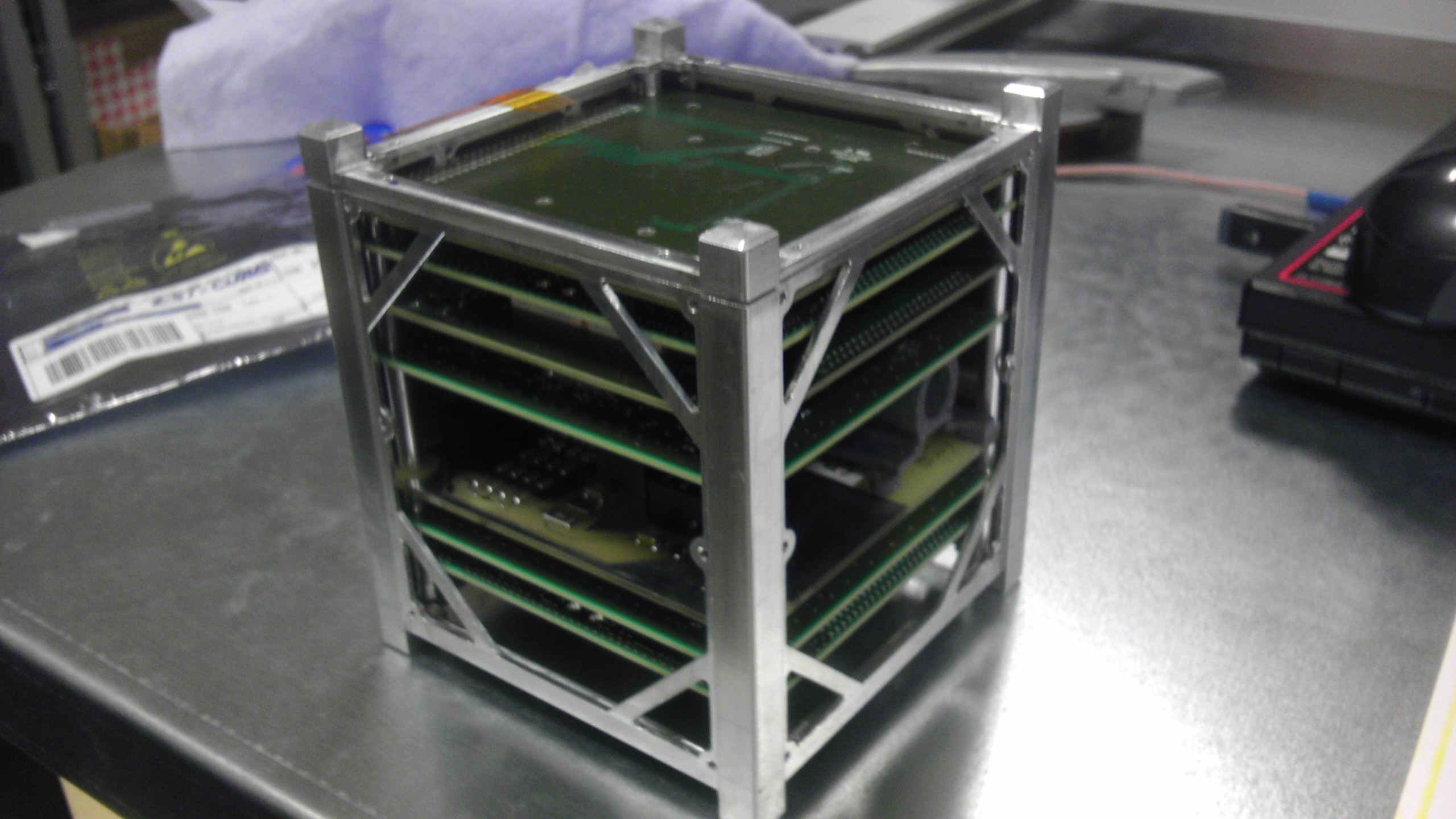 ESTCube-1 cubesat prototype frame, with prototype modules. The frame is without side panels.